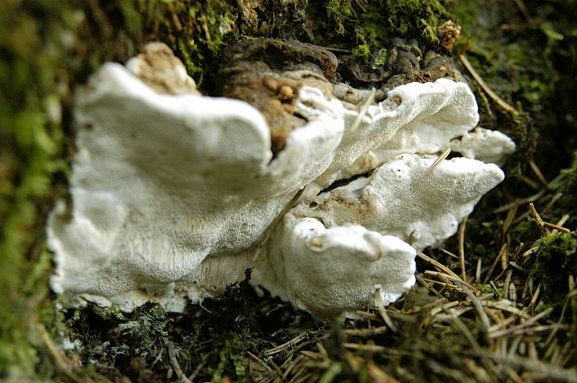 Heterobasidion annosum from Commanster, Belgium. The determination of the species shown in this picture has been verified.